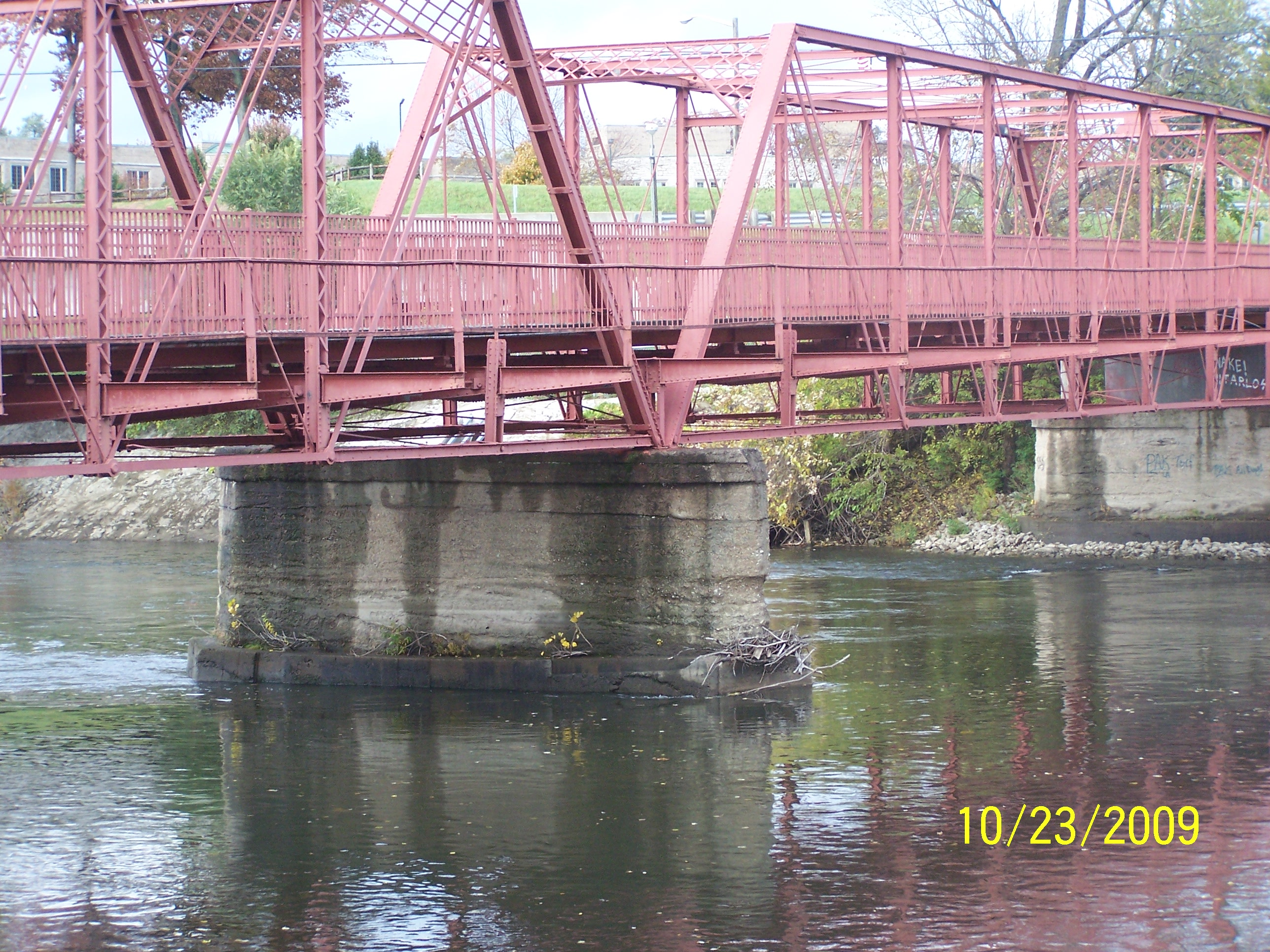 Darden Bridge (footbridge)